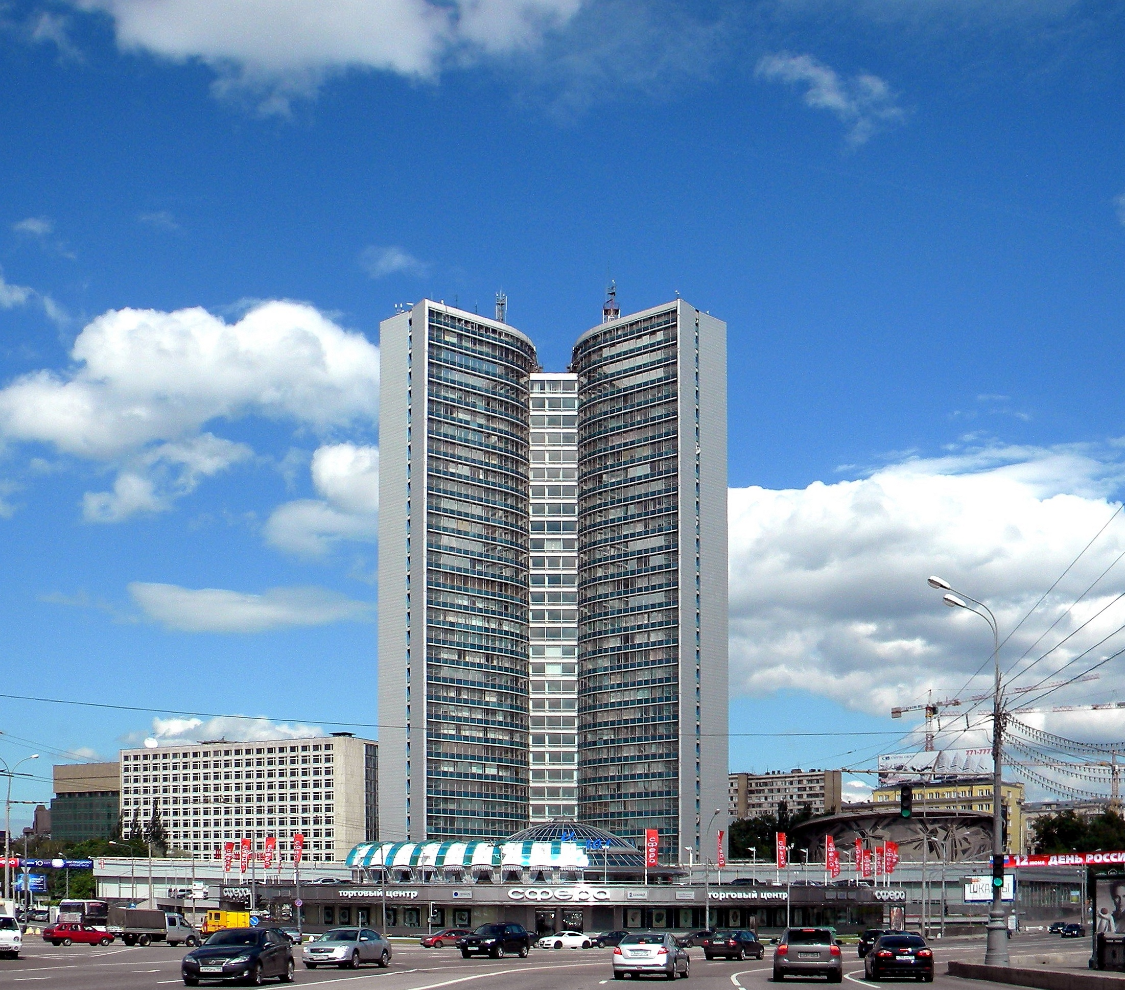 Moscow City Hall, New Arbat St., Moscow River (Former COMECON Bulilding)